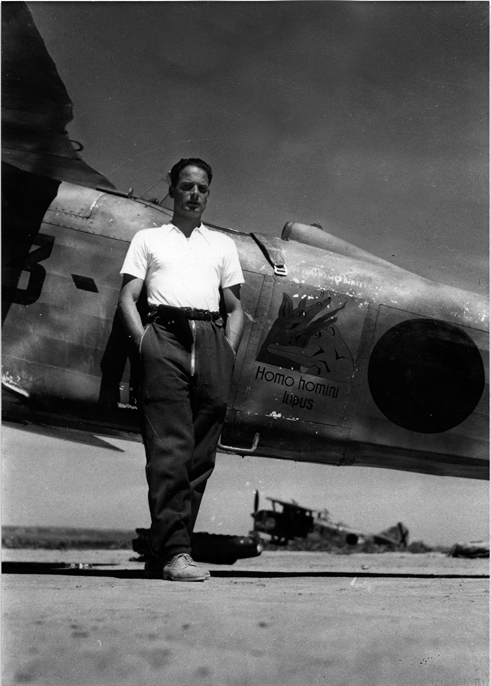 Luigi Monti and his Fiat C.R.32 whit insigna "Homo Homini Lupus"